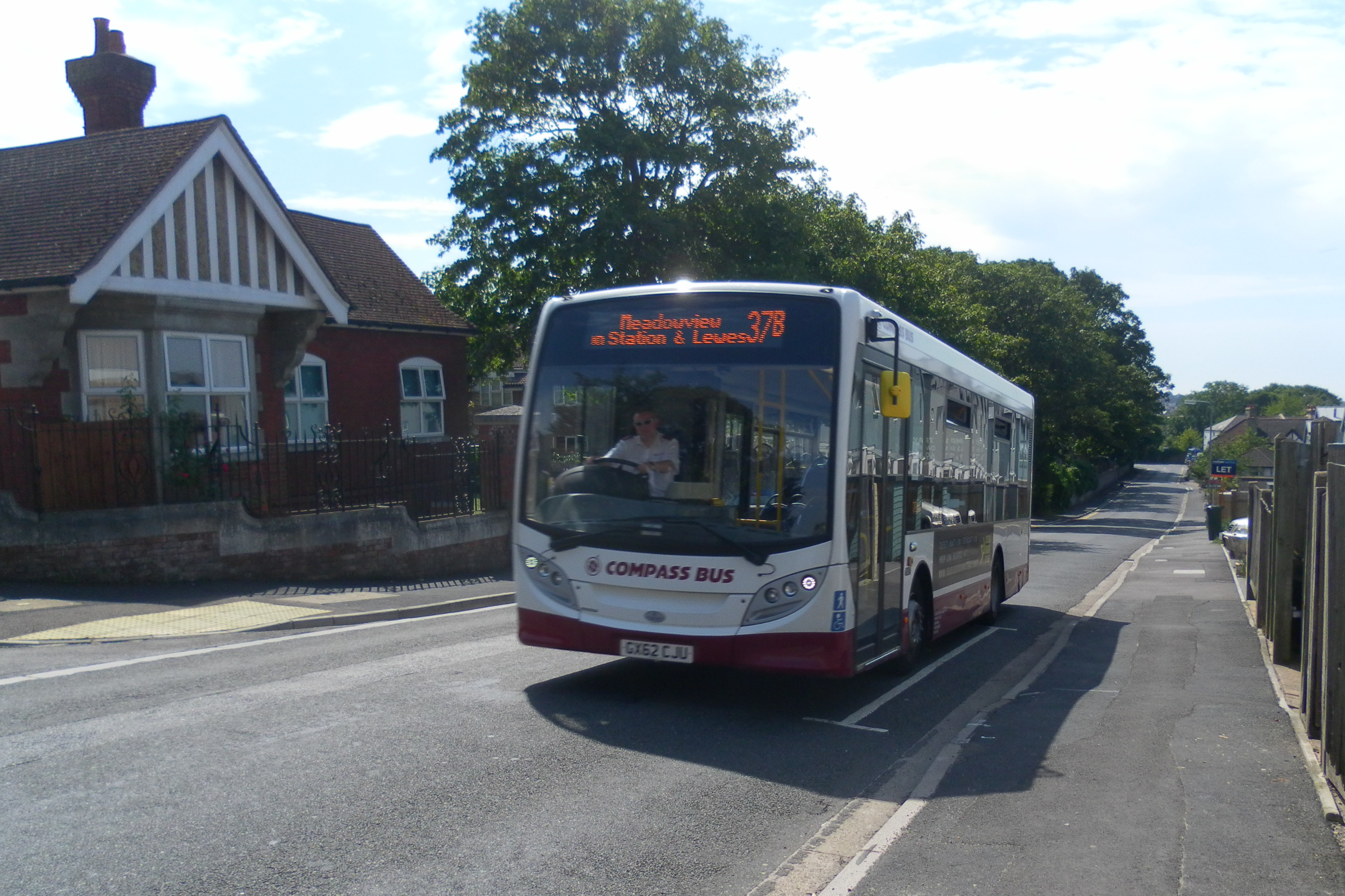 Compass Bus GX62 CJU runs along Bevendean Road in the Bear Road area of Brighton with a route #37B service to Meadowview.